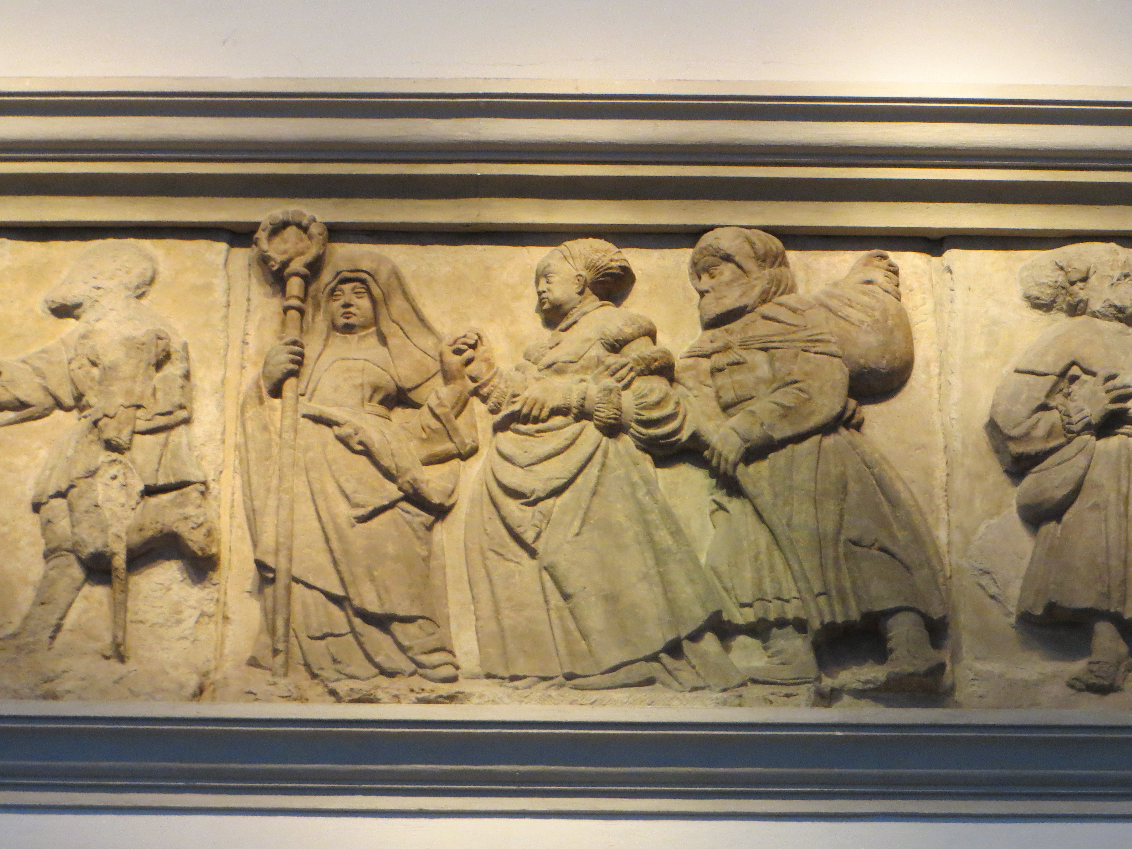 Interior of Dreikoenigskirche, Dresden-Neustadt: Dresdner Totentanz, originally part of the Dresden Ducal residence